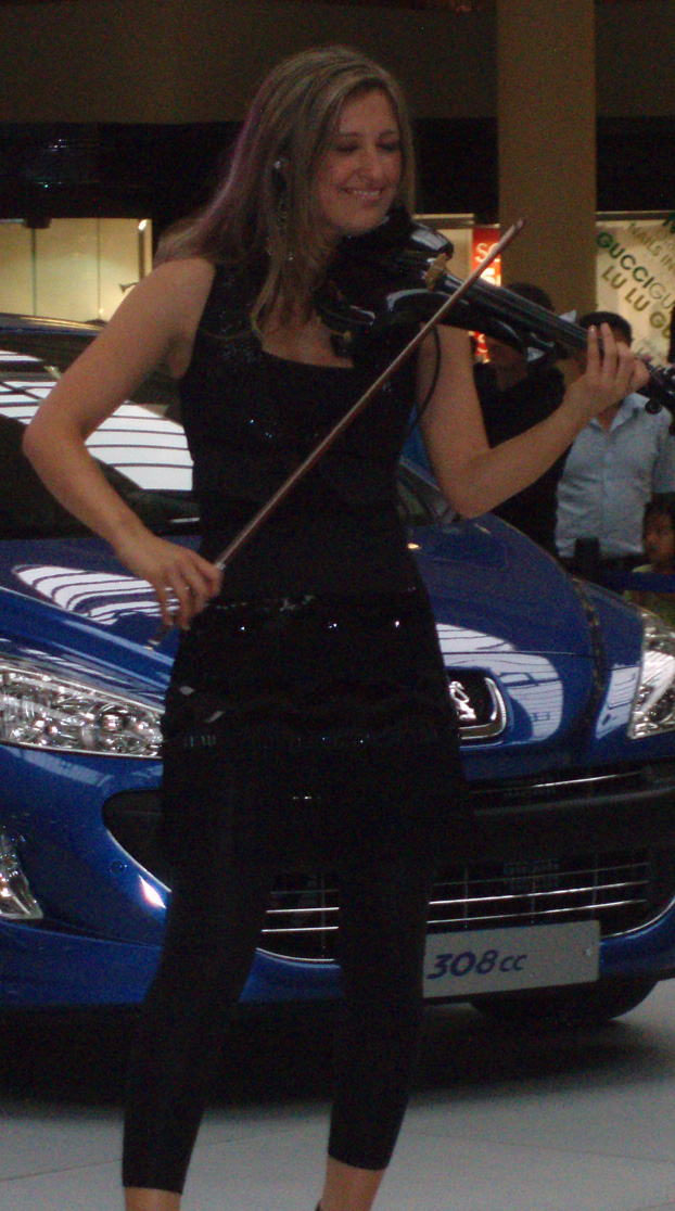 Elspeth Hanson of Bond performing at the Metrocentre in Gateshead, UK in promotion of Peugeot on 27 June 2009.